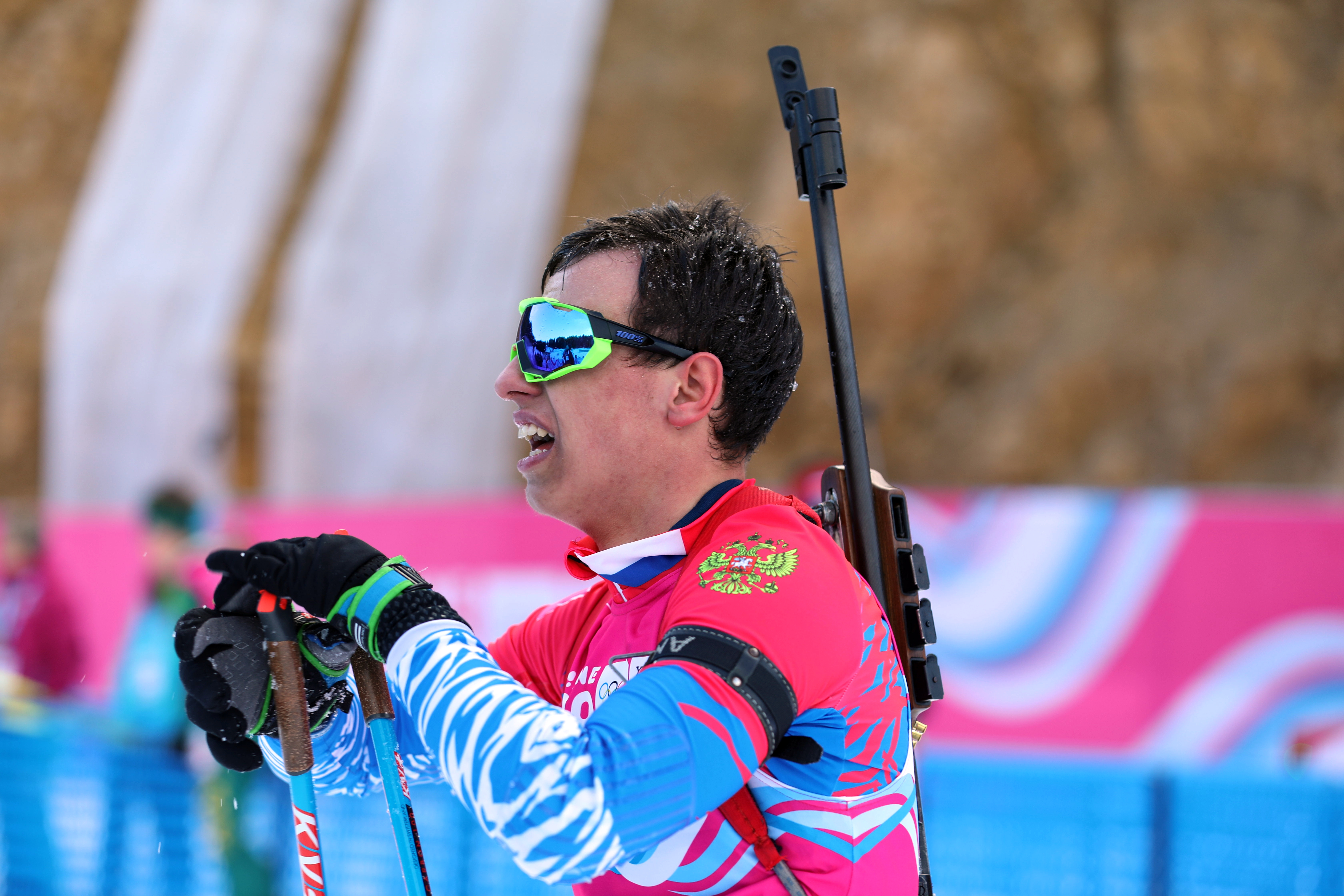 Biathlon at the 2020 Winter Youth Olympics in Lausanne at 11 January 2020 – Individual men